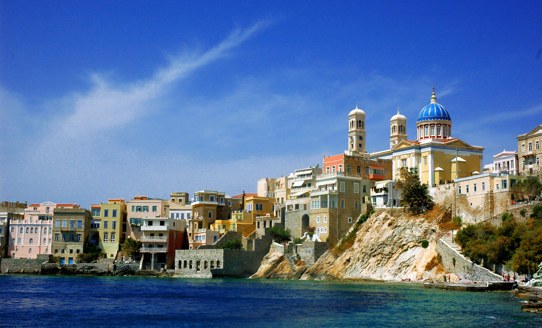 St. Nicolas and Vaporia district, Syros island, Greece